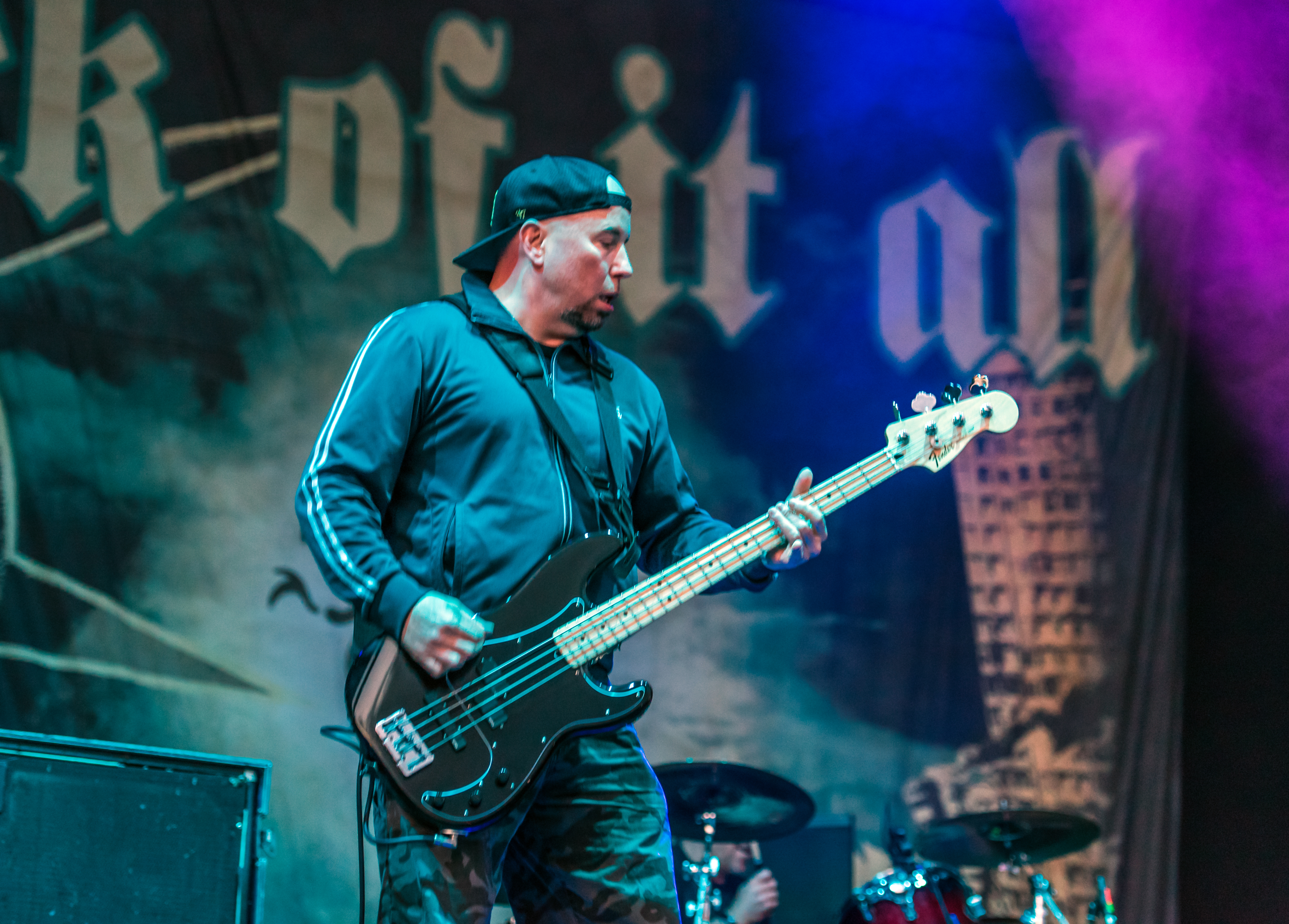 Sick of It All playing at Reload Festival 2018